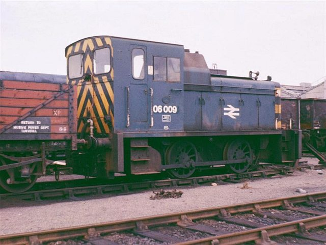 Dunfermline Townhill Wagon Repair Works Class 06 shunter 06009 was the 'works pilot' at Townhill in July 1975. Nothing remains of any rail activity at this location, closed circa 1982.